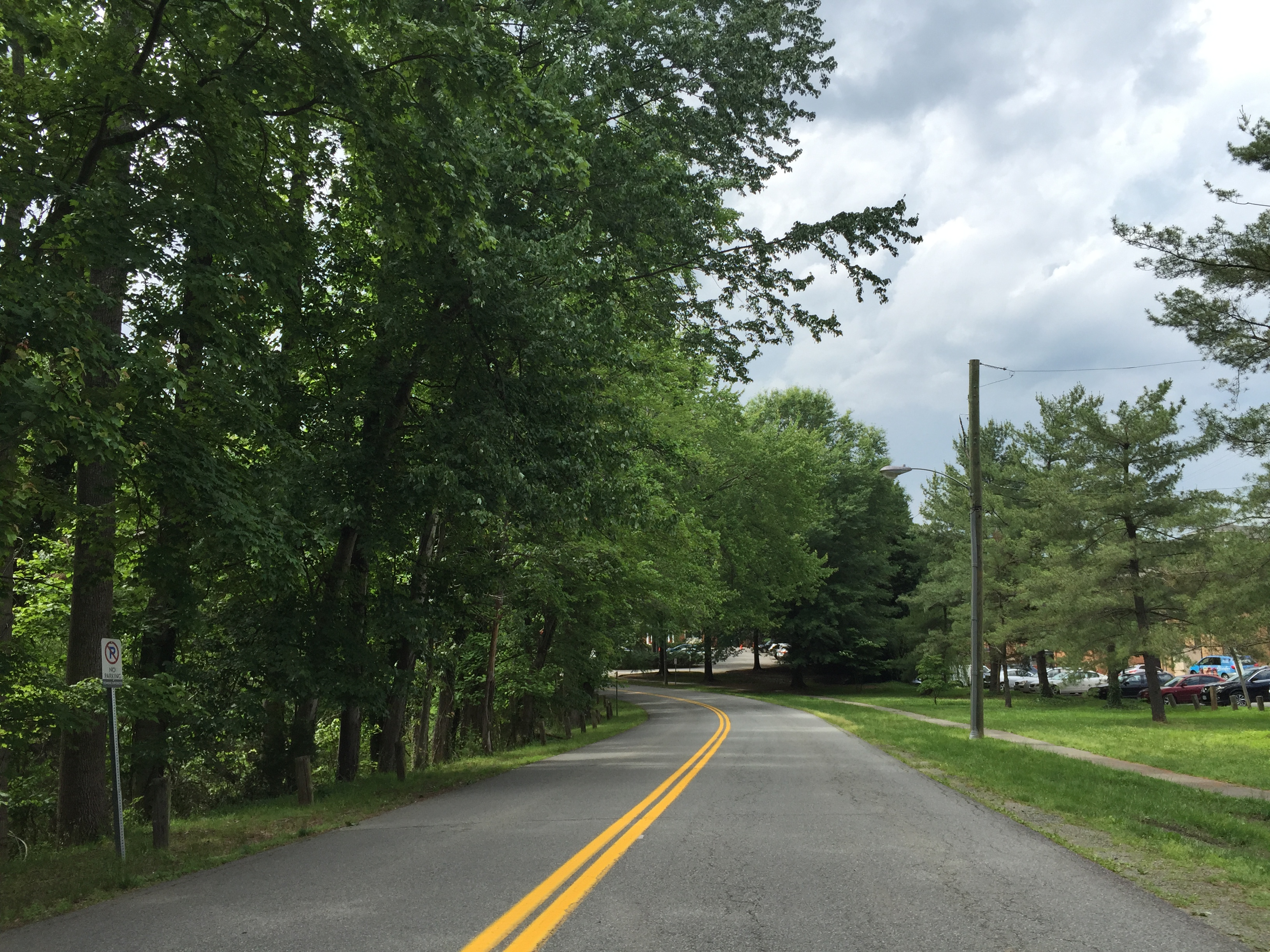 View west along Virginia State Route 302 (Copeley Road) just west of U.S. Route 29 Business (Emmet Street) just west of Charlottesville in Albemarle County, Virginia